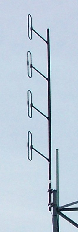 A collinear folded dipole antenna on a communication tower on Lake Mountain, Utah, USA. It consists of 4 vertical folded dipole antennas in a line, fed in phase. It is an omnidirectional antenna, radiating equal power in all horizontal directions. The advantage of using 4 antennas is that the horizontal gain is increased; more of the radio power is radiated in horizontal directions and less up into the sky and down toward the earth where it is wasted. Four collinear half wave dipoles have a gain of 6 dB over a single dipole's gain of 2.15 dBi or a total of 8.15 dBi. Collinear dipole arrays like this are often used as the base station antennas for dispatchers for radio-equipped mobile services such as police, fire, ambulance, taxi, and delivery services. Alterations to original image: cropped out other antennas in picture